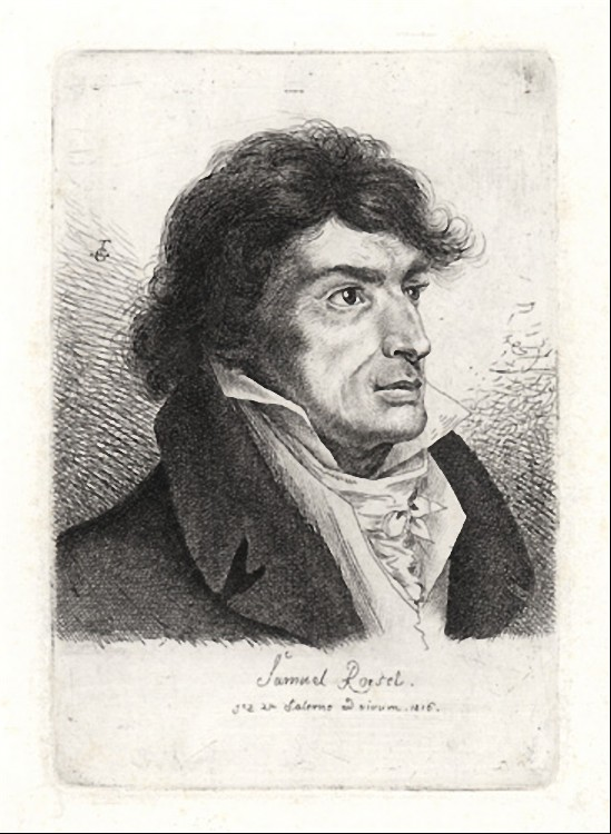 Portrait of Johann Gottlob Samuel Rösel (1768 or 1769 in Breslau - 1843 in Potsdam), painter of landscapes, professor at the Berlin Academy of Fine Arts.